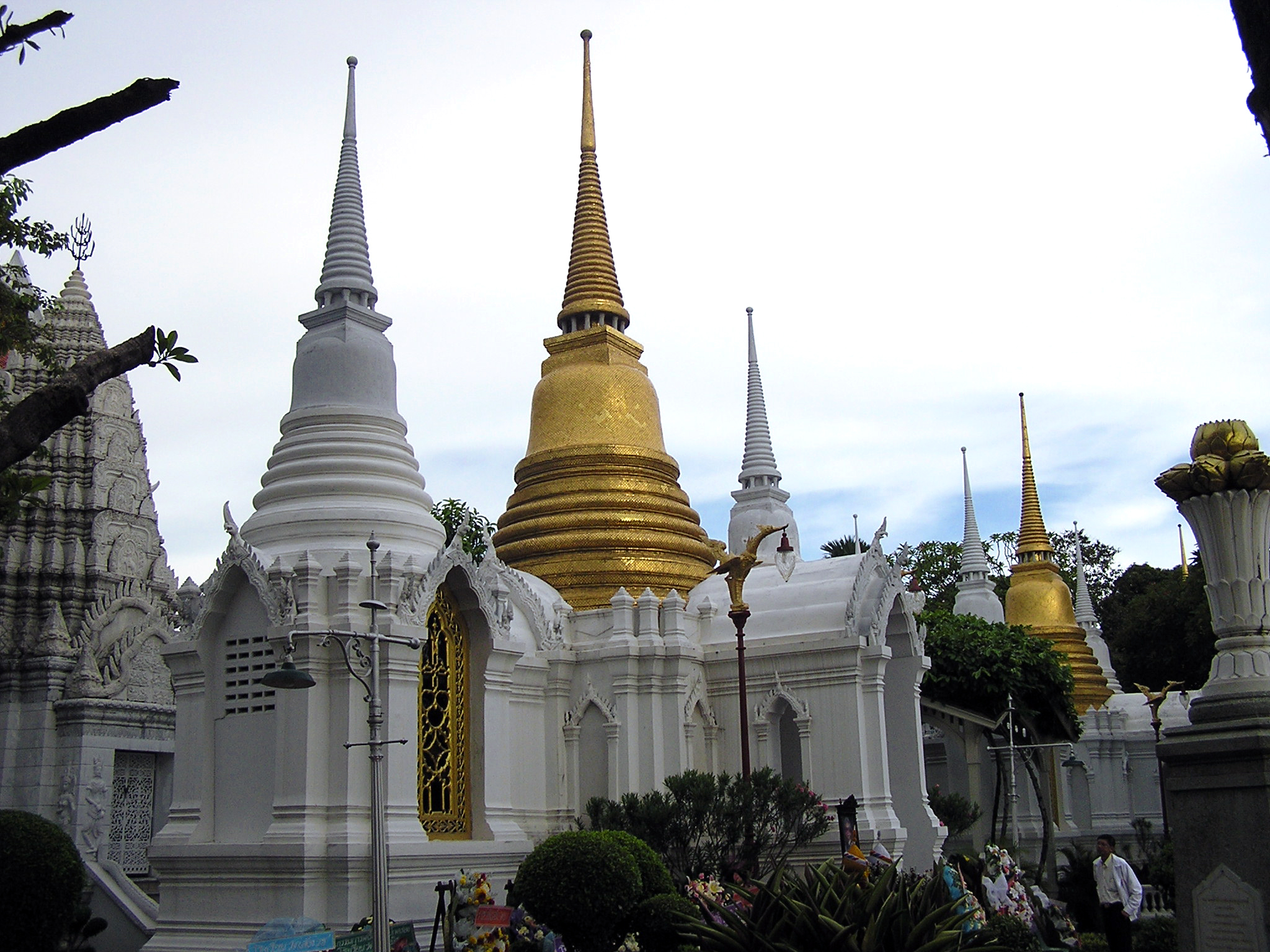 Mausoleum of HM the Queen Savang Vadhana at Royal Cemetery in Wat Ratchabopit, Bangkok, Thailand